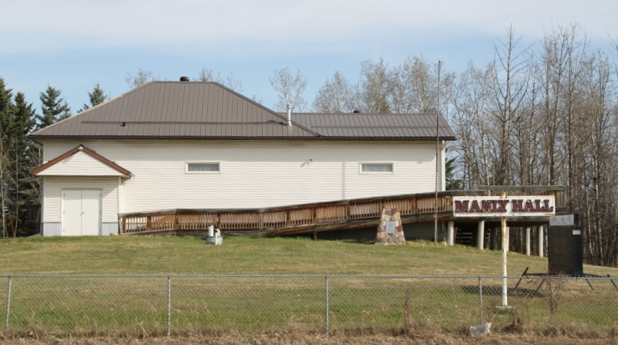 This is a photo Manly, Hall in the locality of Manly, Alberta